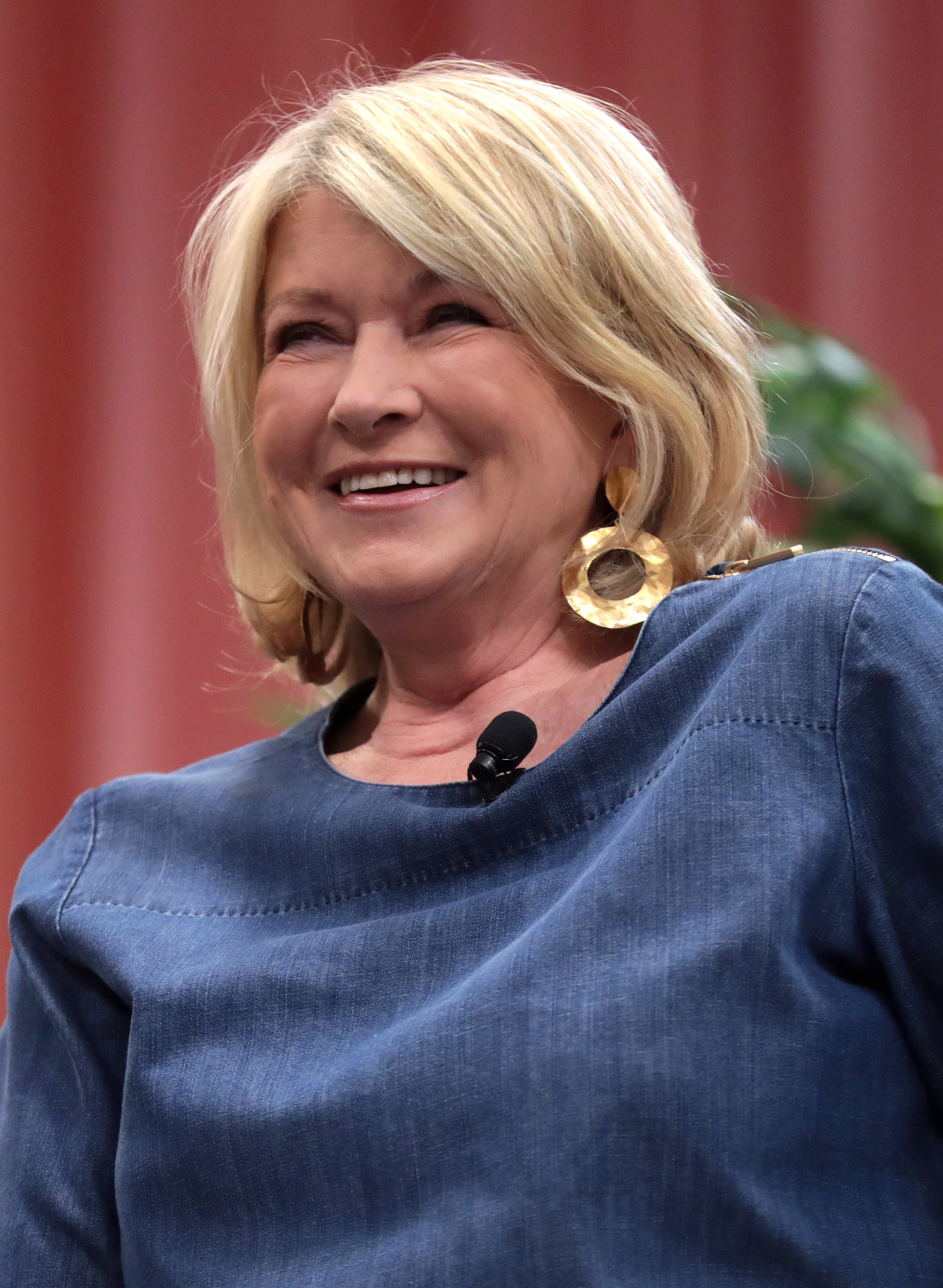 Martha Stewart speaking at an event in Scottsdale, Arizona.